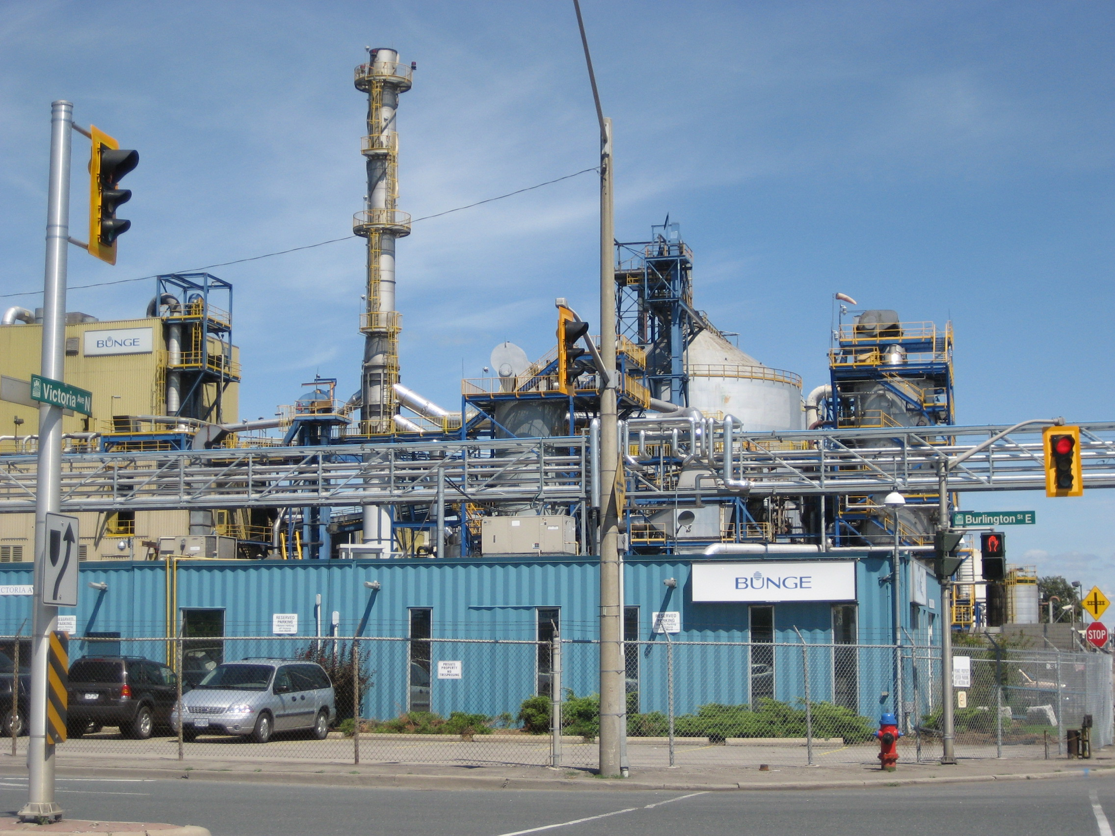 Bunge Limited (aka s**thole), Canola processing plant, Burlington Street & Victoria Avenue North, Hamilton, Canada.